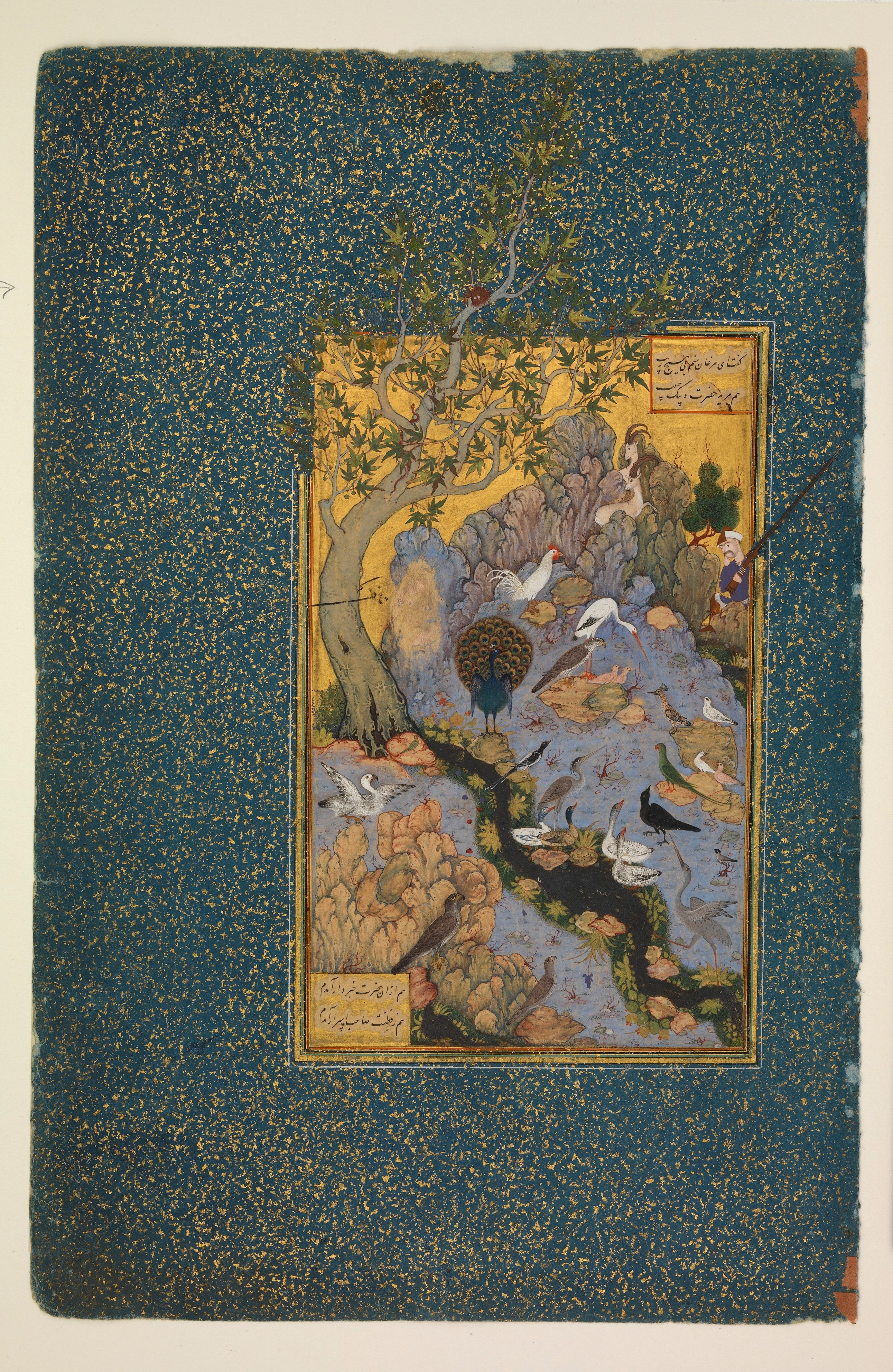 The_Mantiq_al-tair,_composed_by_the_Persian_poet_Farid_al-Din Metropolitan Museum The Conference of the Birds: Page from a manuscript of the Mantiq al-Tayr (The Language of the Birds) of Farid al-Din cAttar, ca. 1600; Safavid, Iran (Isfahan),Opaque watercolor, ink, silver, gold on paper, 10 x 4 1/2 in. (25.4 x 11.4 cm), Fletcher Fund, 1963 (63.210.11) Source: The Conference of the Birds: Page from a manuscript of the Mantiq al-Tayr (The Language of the Birds) of Farid al-Din Attar [Iran (Isfahan)] (63.210.11): Heilbrunn Timeline of Art History: The Metropolitan Museum of Art